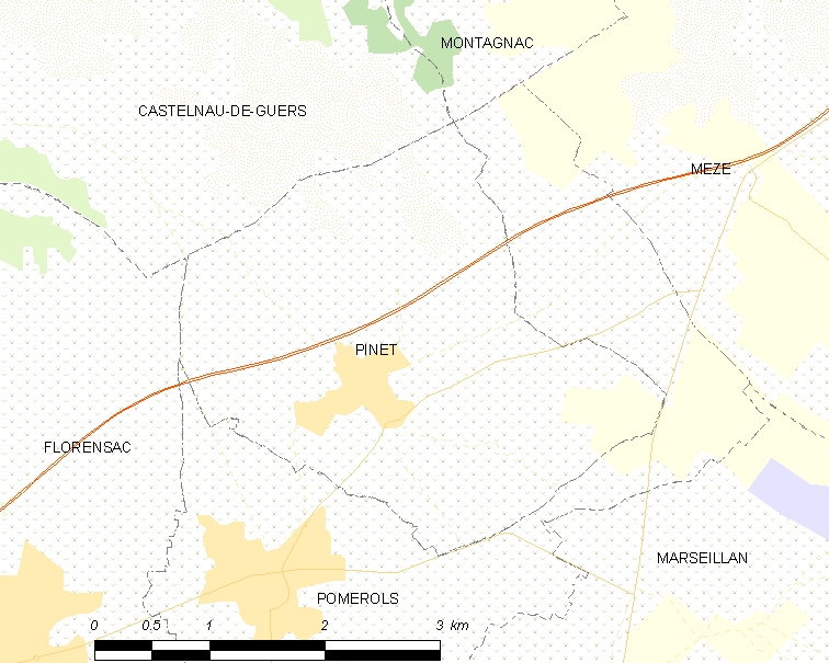 Map commune FR insee code 34203.png - Pinet